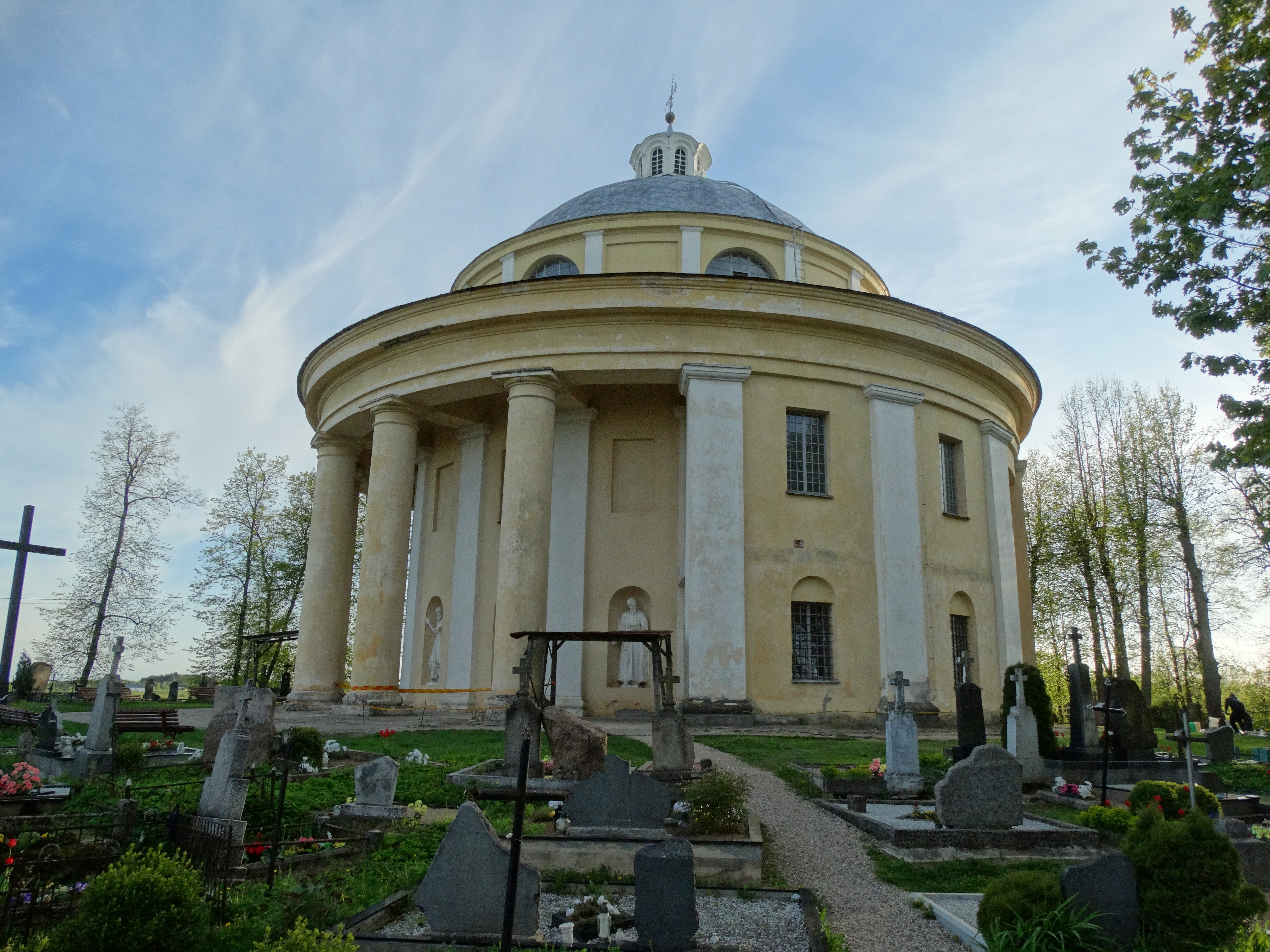 Holy Trinity Church, Sudervė, Lithuania